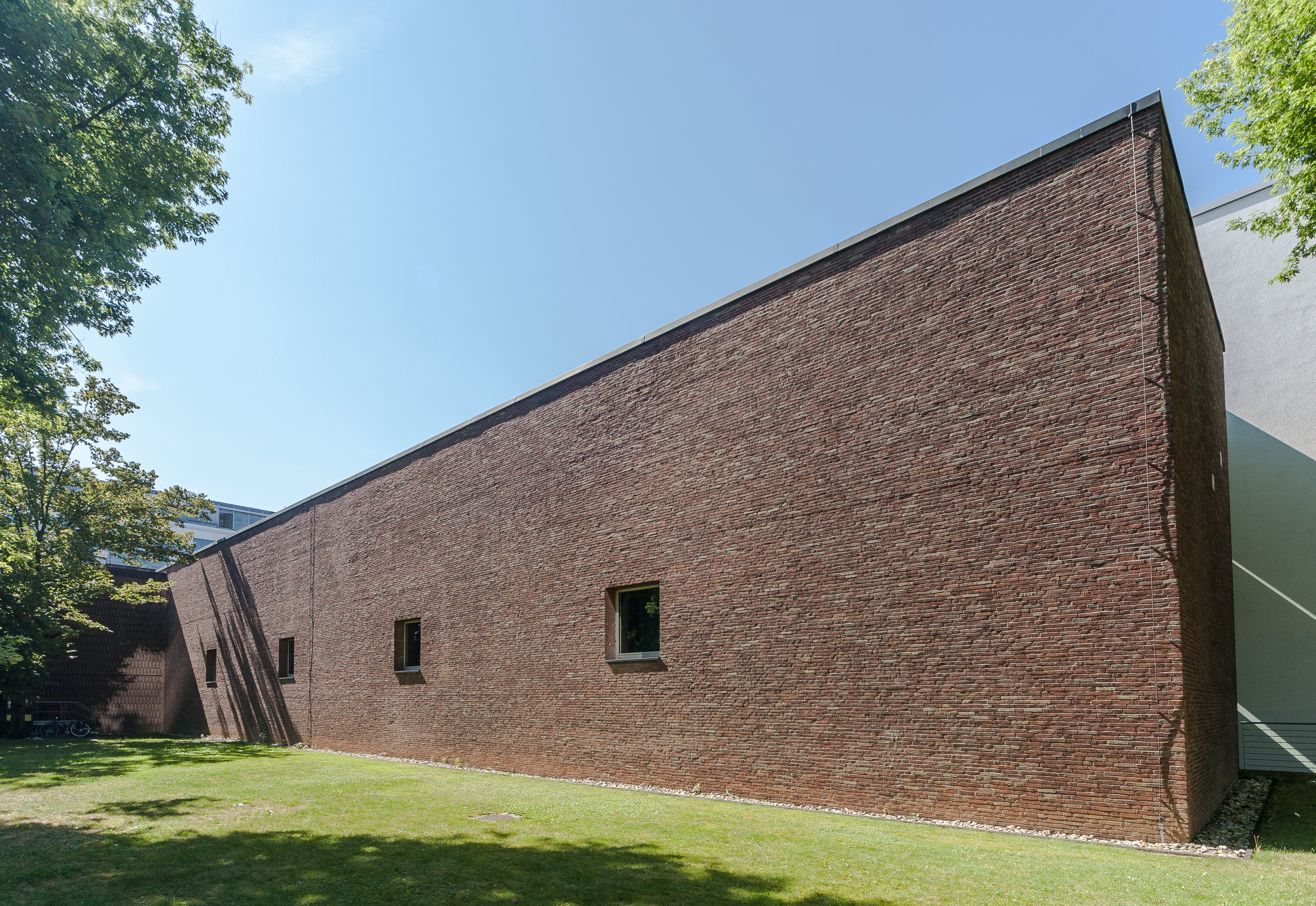 Heritage-protected main and administrative building of the former Embassy of the Netherlands, Sträßchensweg 10, Bonn